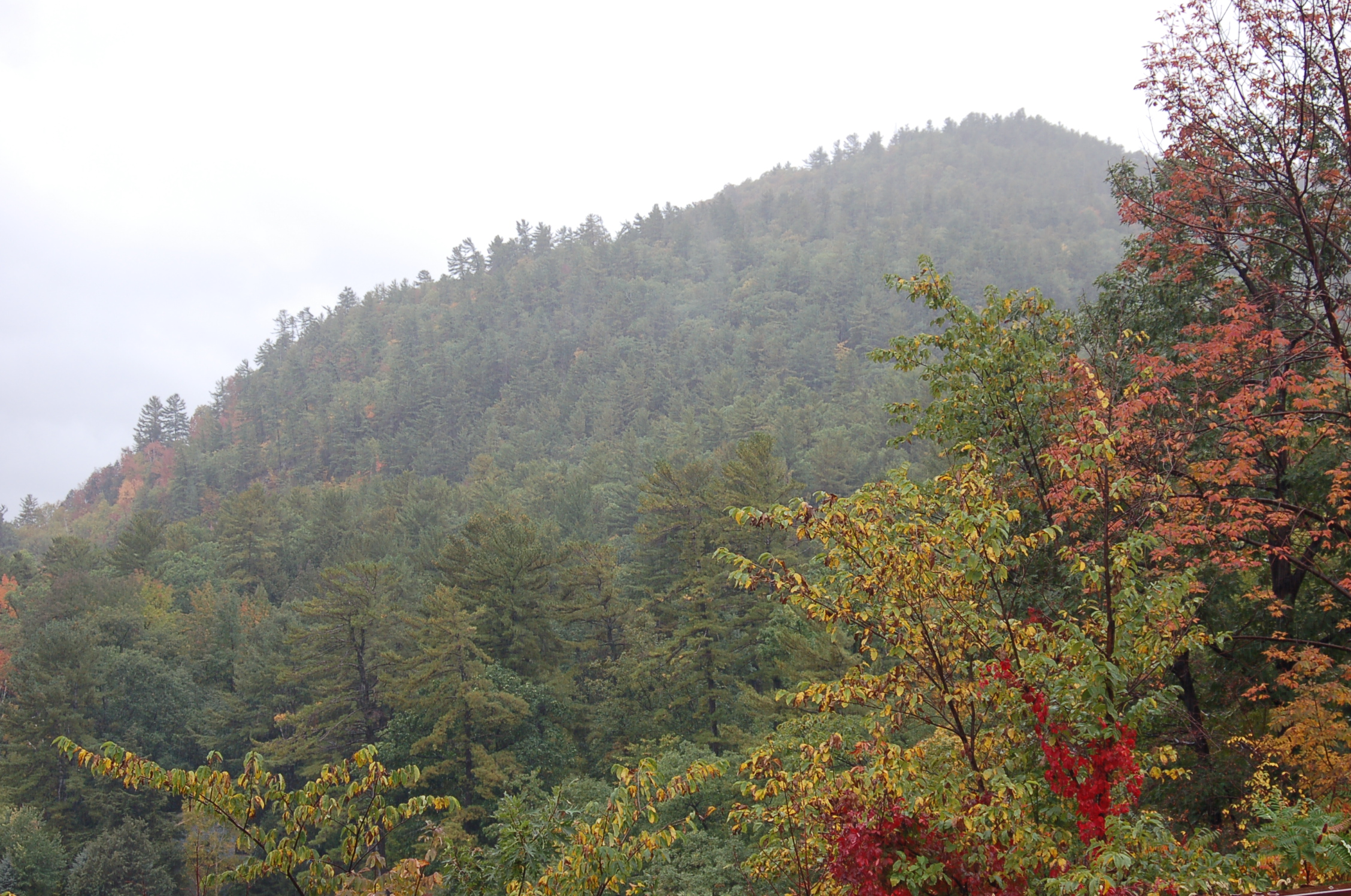 Five Mile Mountain from the trailhead, taken Sept 2006